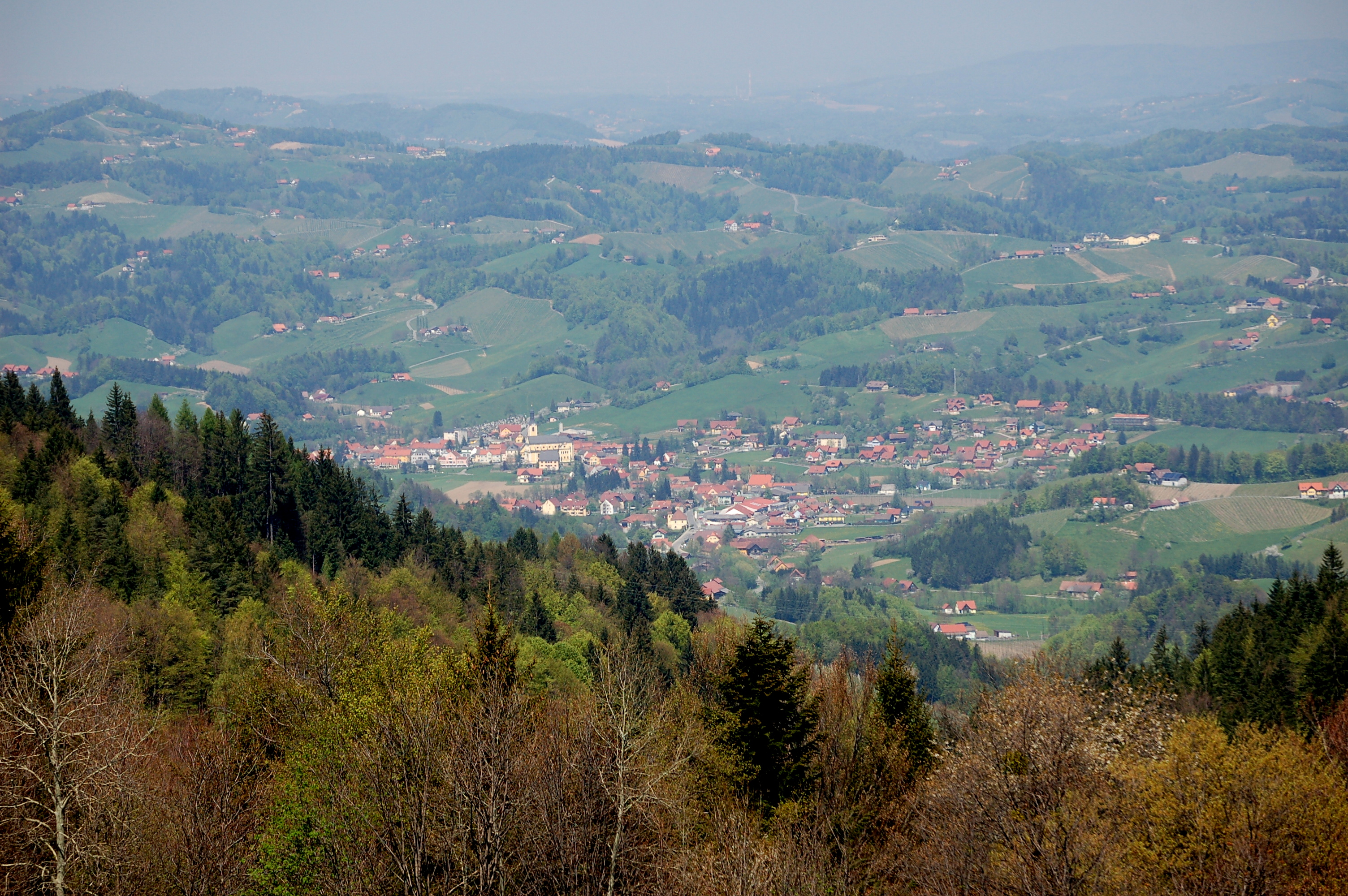 Telephoto lens view of Leutschach, Styria, from south